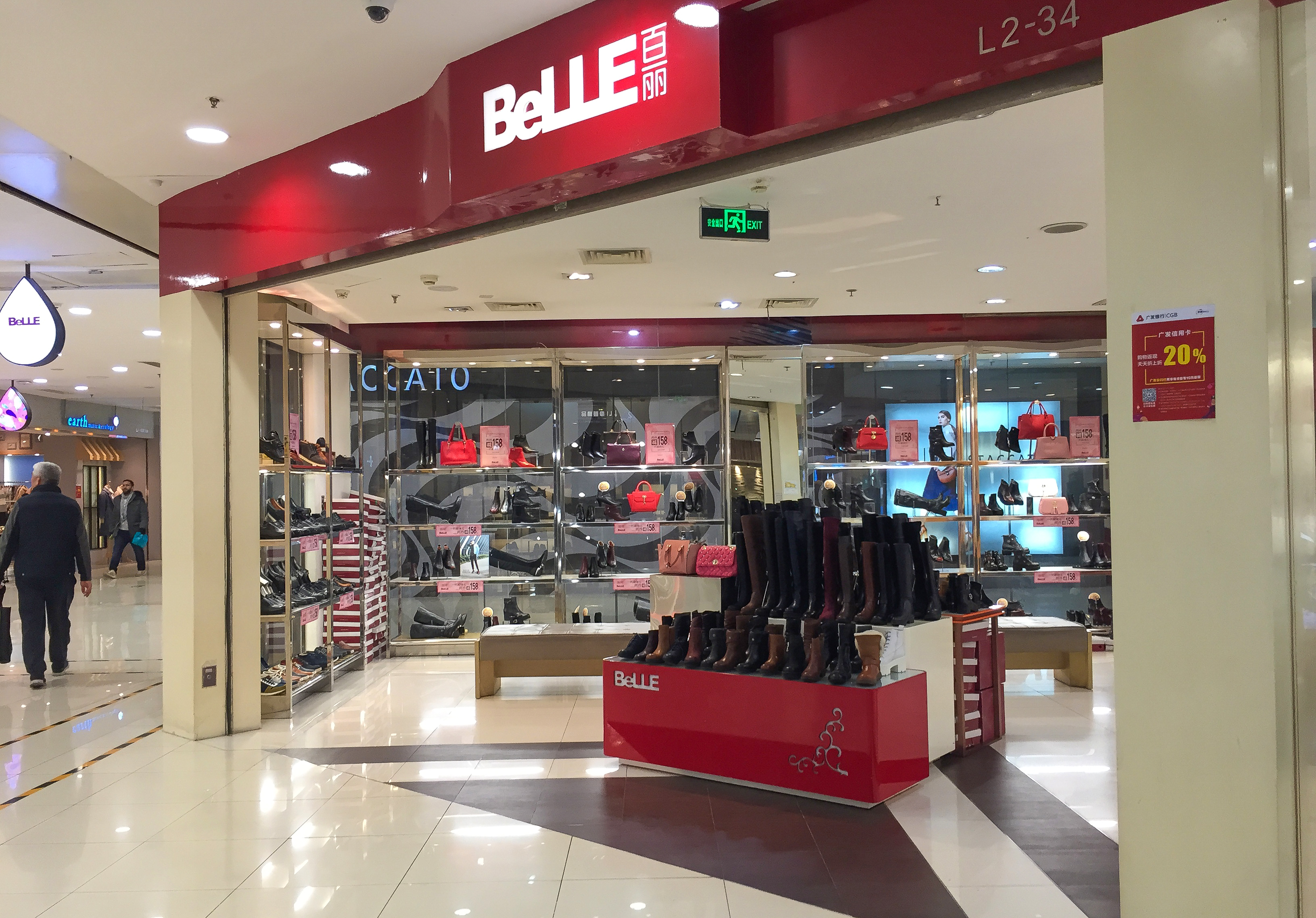 At the escalator threshold of 2F.